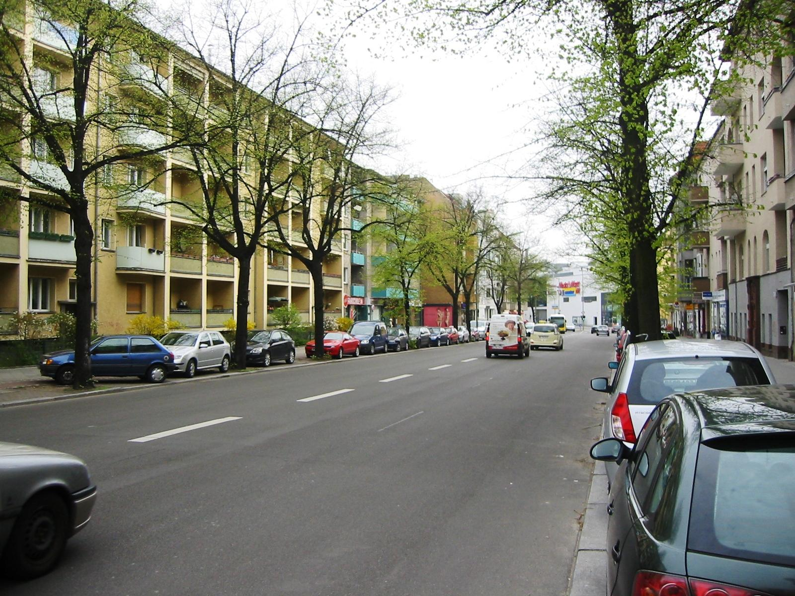 Berlin-Tempelhof Friedrich-Karl-Straße